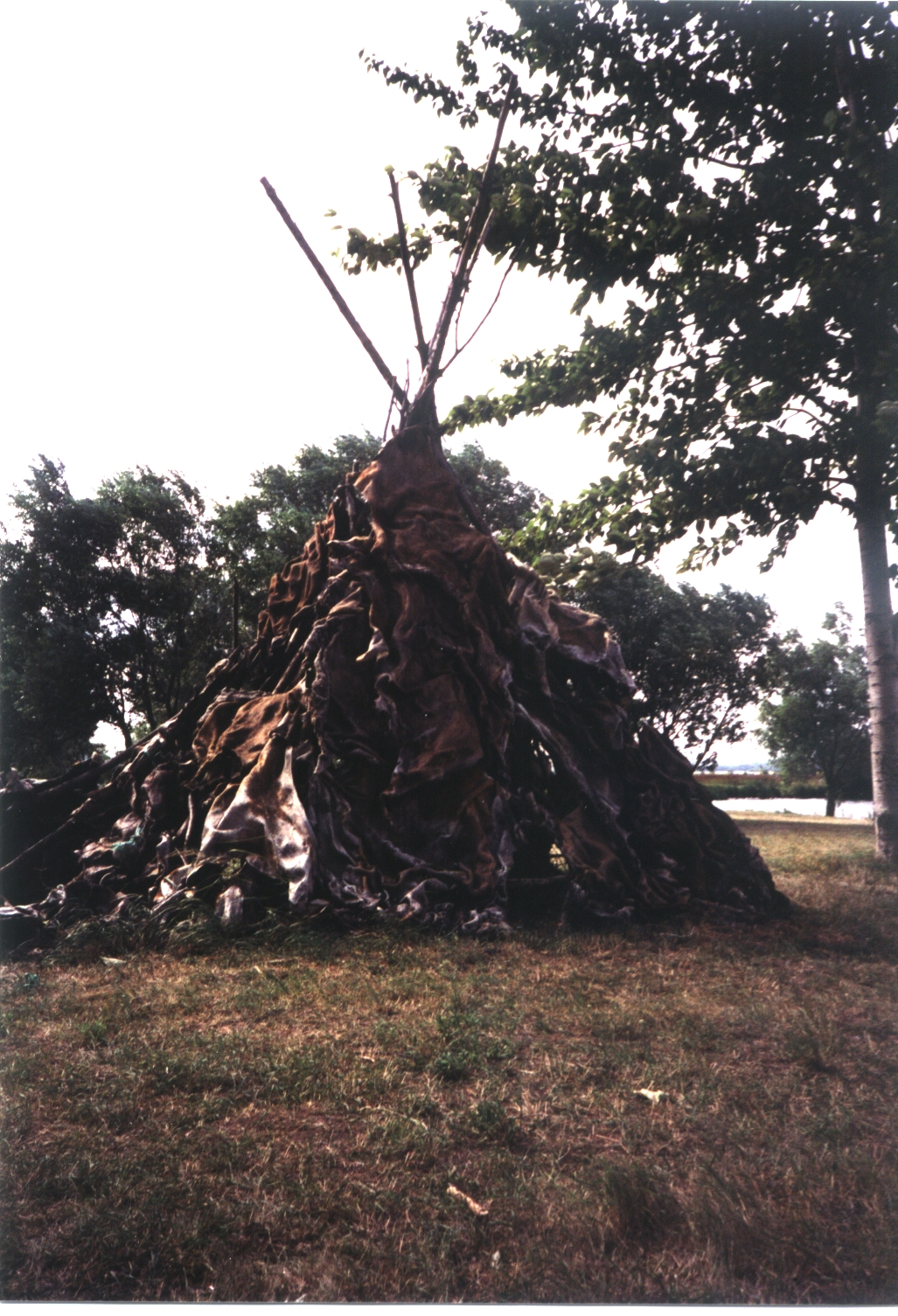 Reconstruction of Upper Paleolithic tent from non-tanned leathers.